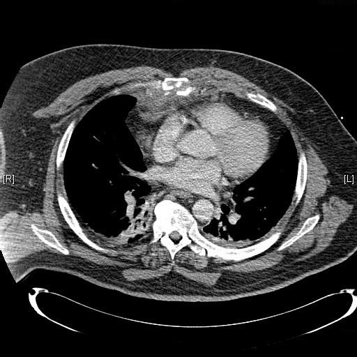 caption reads "CT scan showing a comminuted fracture of the sternum and retrosternal haematoma."